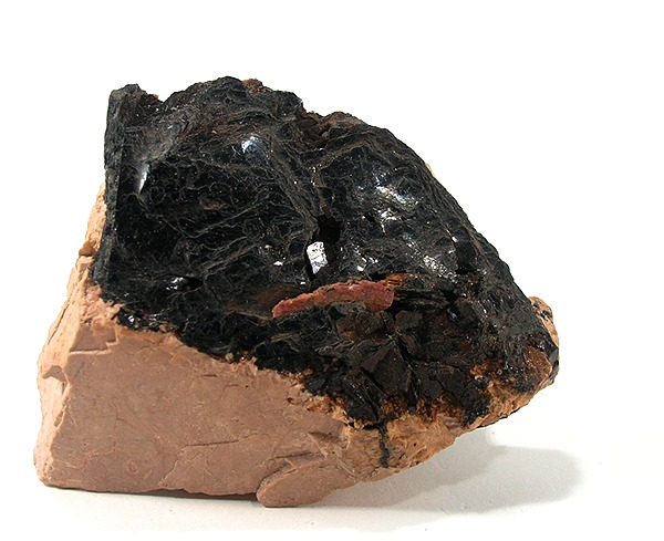 Bannisterite Locality: Broken Hill, Yancowinna County, New South Wales, Australia (Locality at ) Size: small cabinet, 9.7 x 5.2 x 4.5 cm Bannisterite An exceptionally rich specimen for the species with flat, stacked, platelike crystals on feldspar matrix. This is old material, and frankly difficult to find in any quality.Good lustre in person, too, so its not as ugly as it looks! 9.7 x 5.2 x 4.5 cm